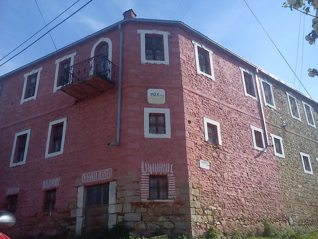 An old Macedonian house with traditional architecture in Bukovo, near Bitola, Macedonia